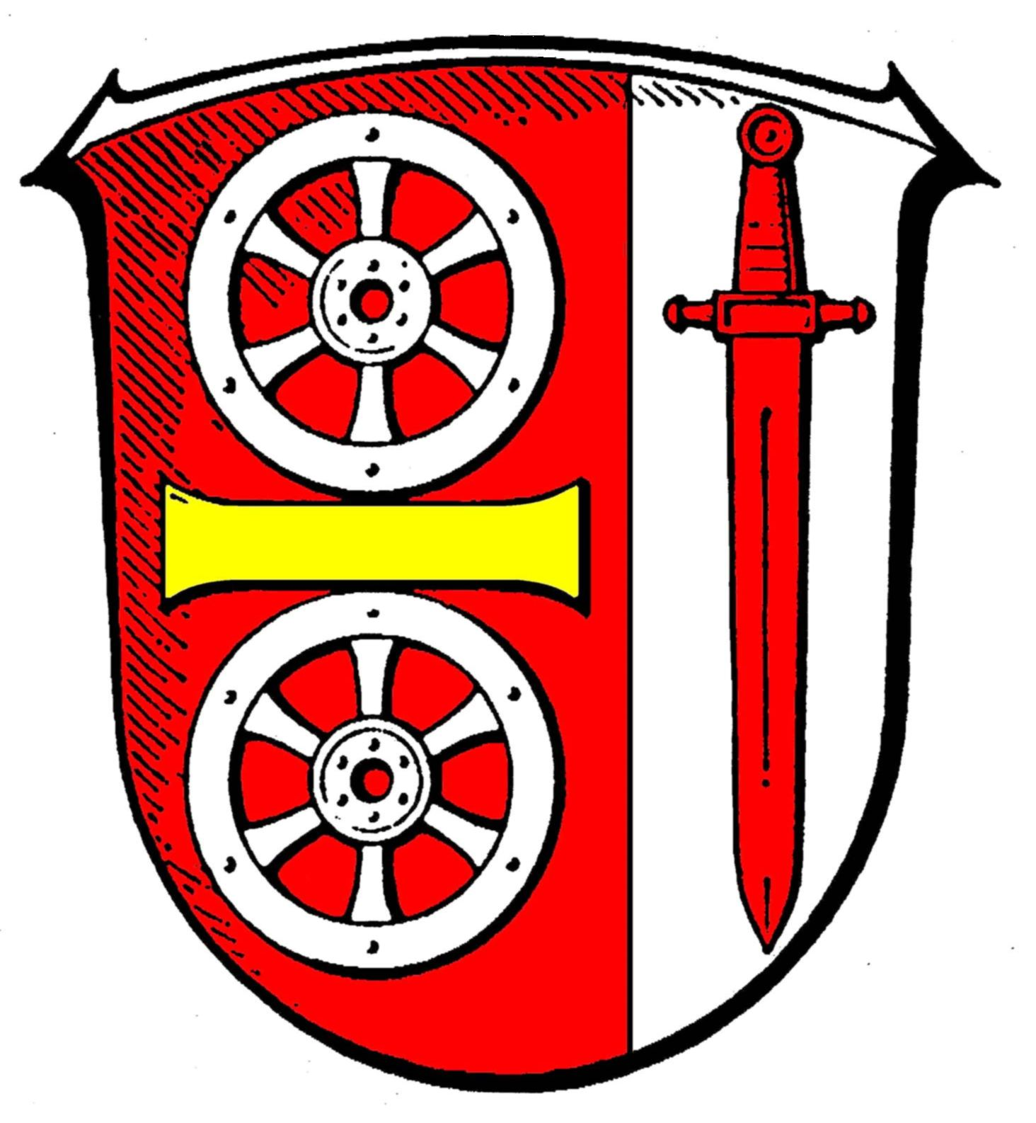 Coat of Arms of Lorch)